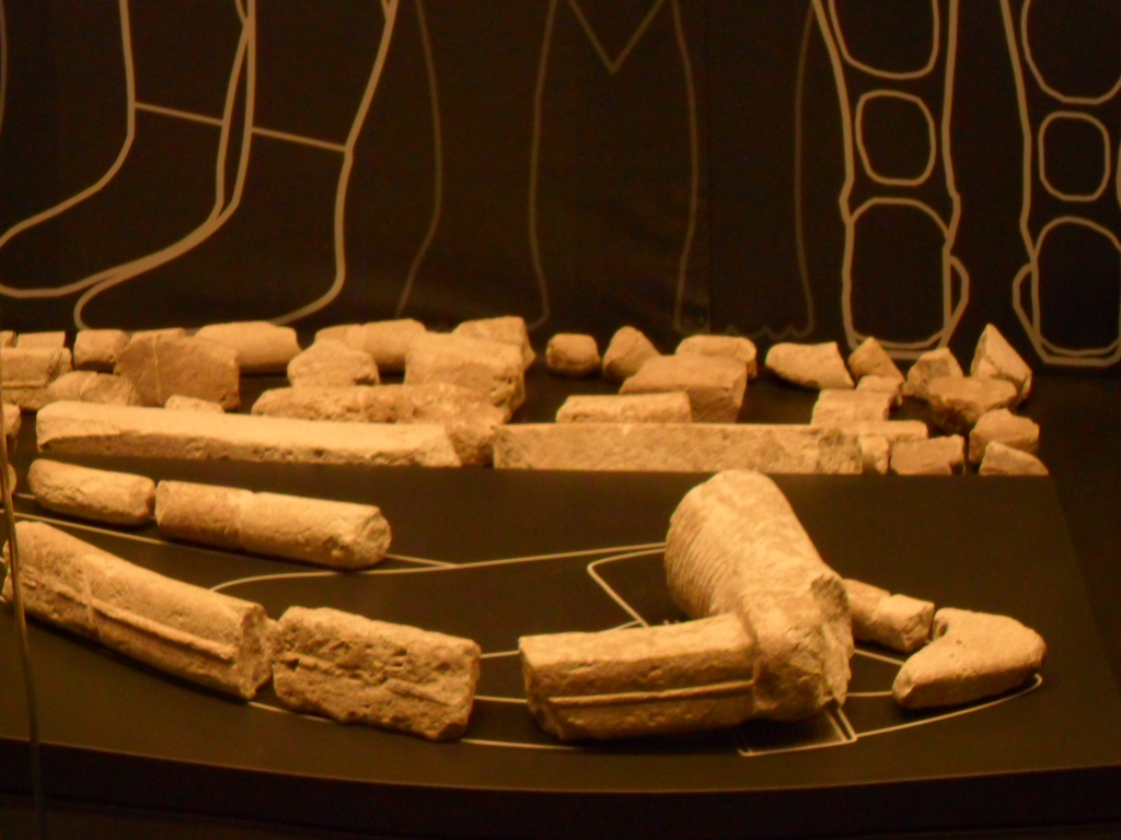 Monte Prama Fragments Statue